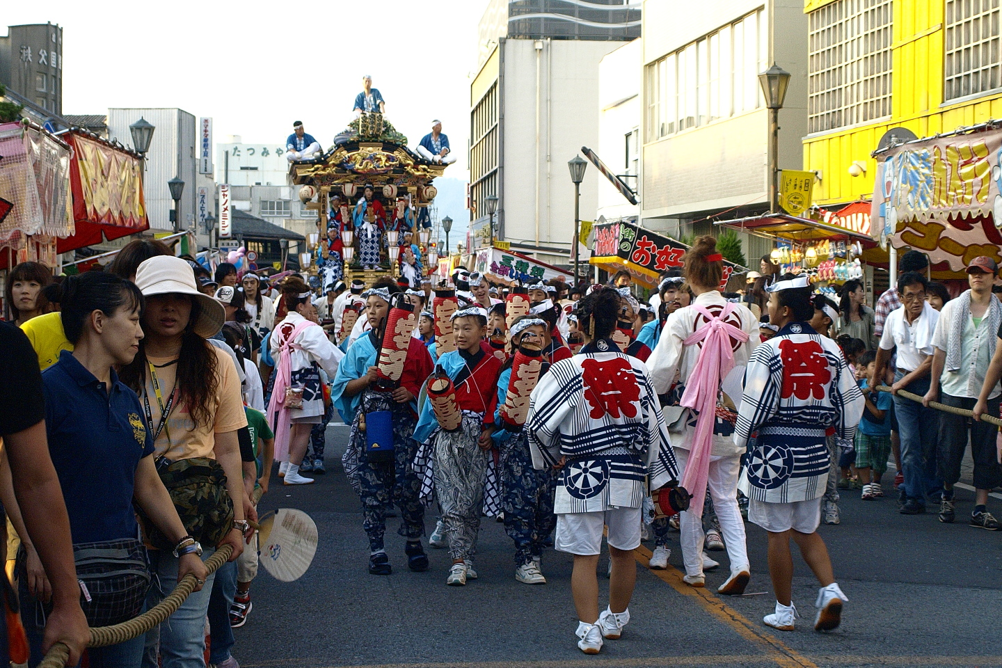 Chichibu Kawase Matsuri, a summer festival in the city of Chichibu, Japan.